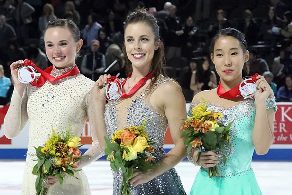 The ladies podium at the 2016 Skate America. From left: Mariah Bell (2nd); Ashley Wagner (1st); Mai Mihara (3rd).